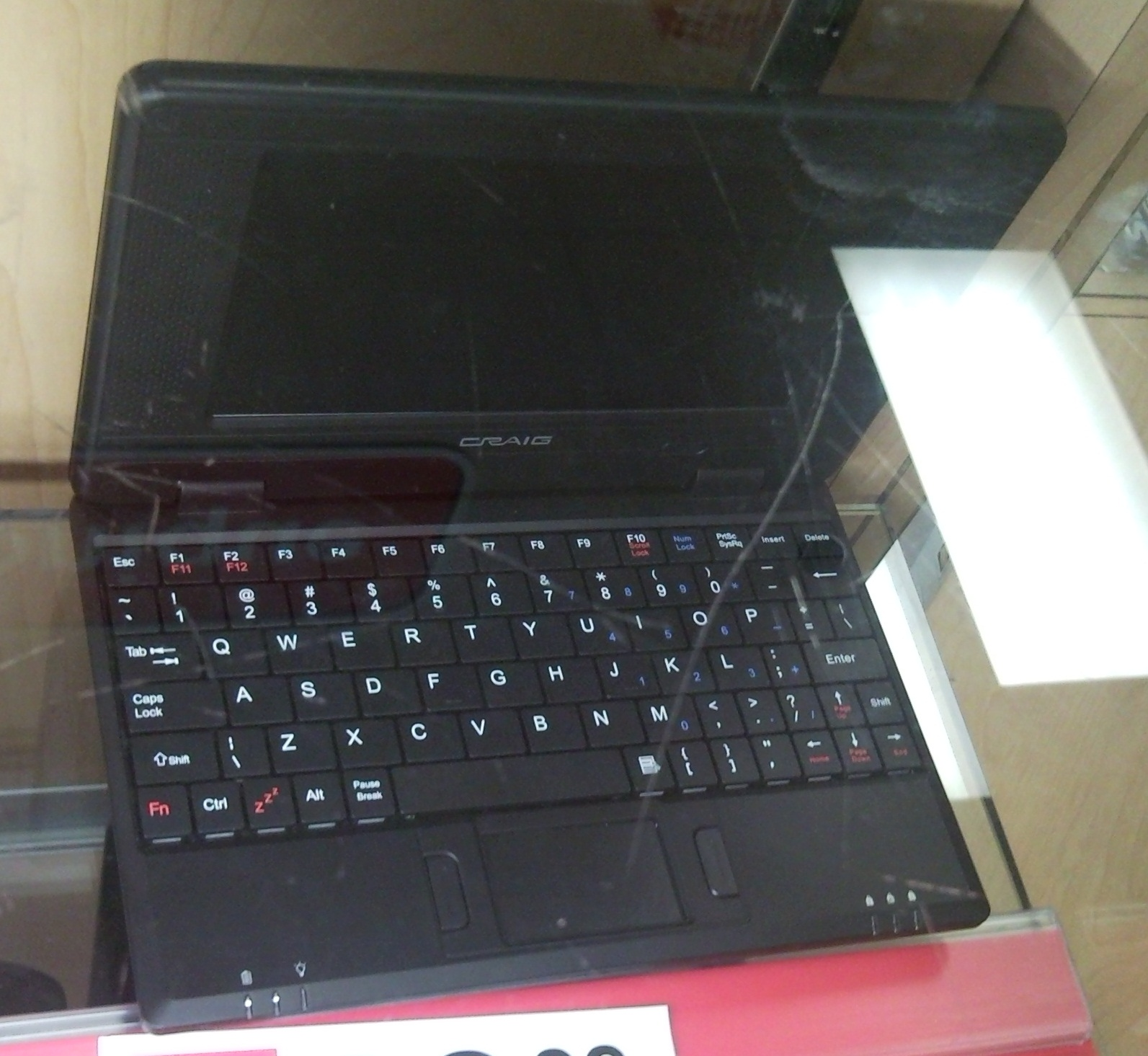 Craig Android netbook photographed in Montreal, Quebec, Canada.